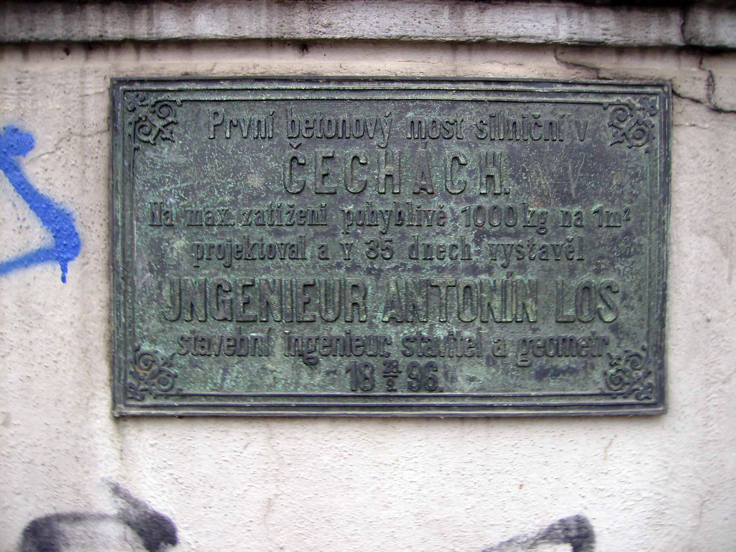 Bridge over the Rokytka River in Prague-Libeň is the oldest concrete road bridge in Bohemia. Conmemorative plaque describing its construction.